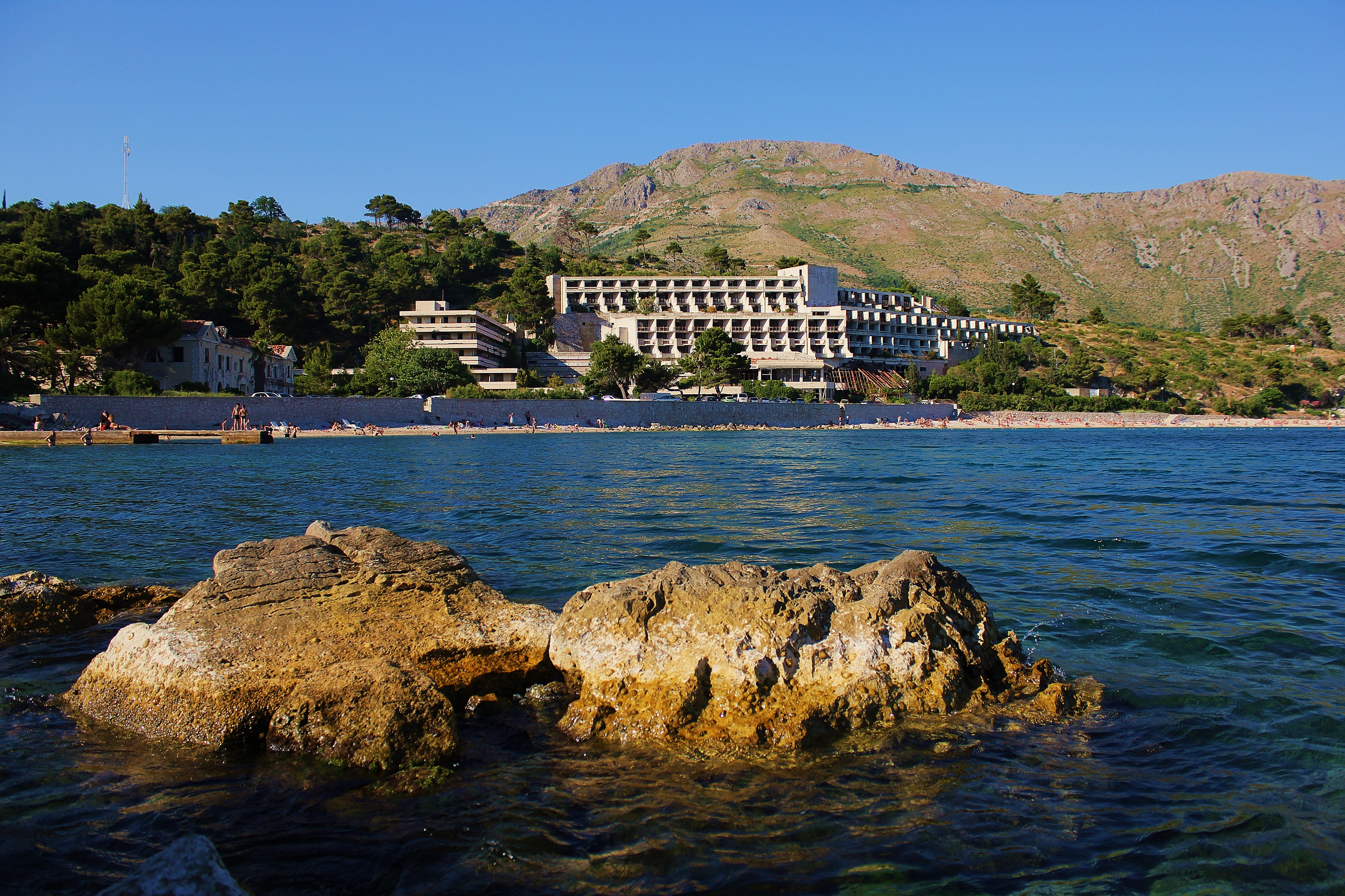 Kupari.Croatia